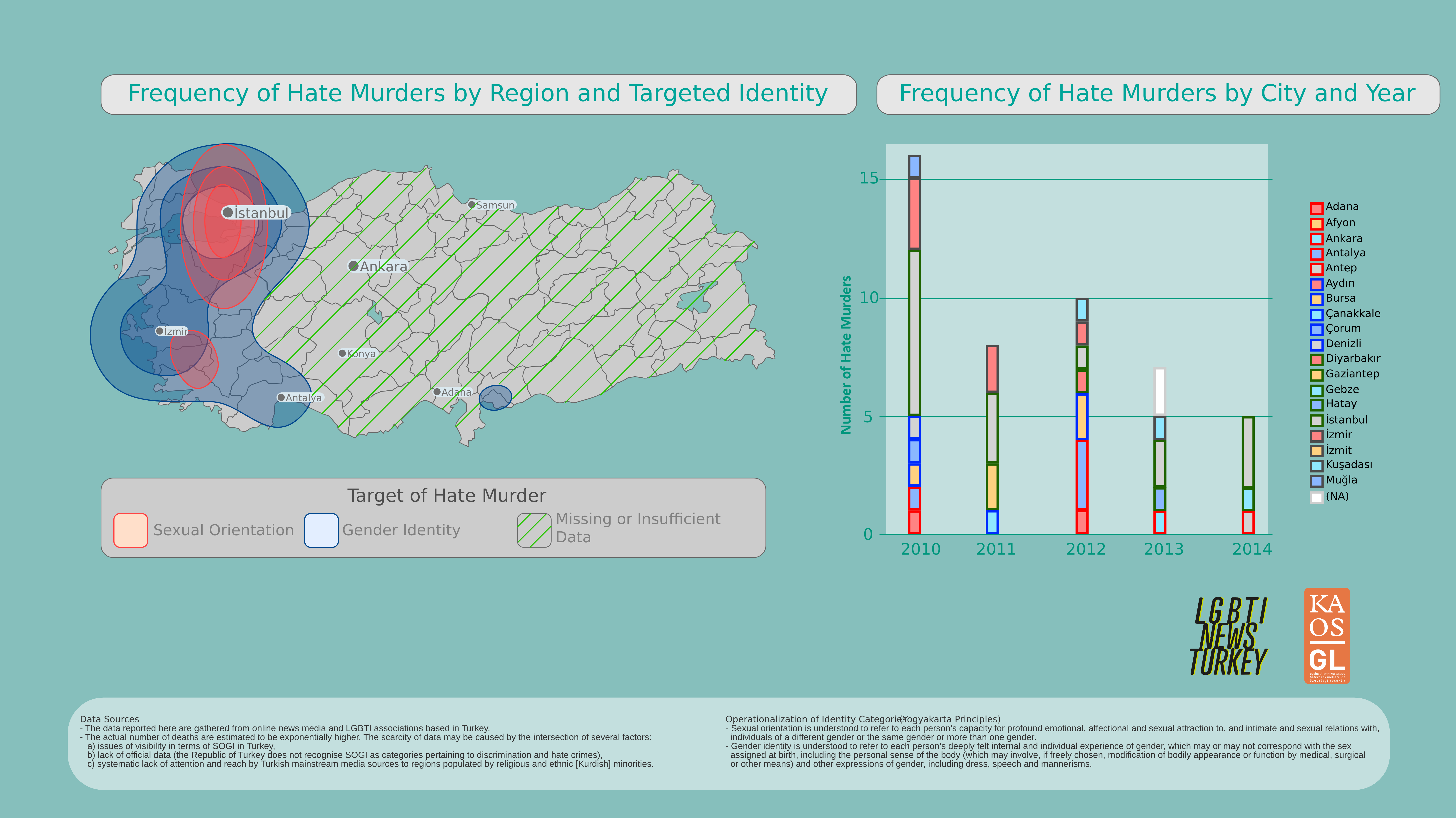 Between January 2010 and November 2014, 47 individuals have been killed due to their real or perceived sexual orientation or gender identity. These deaths are represented in the attached infographic, with data collected by LGBTI News Turkey volunteers from various online news media and LGBTI associations.